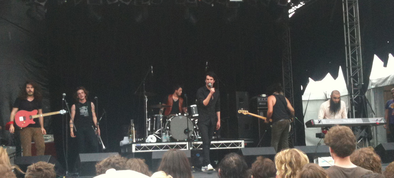 A picture of Foxy Shazam performing in Sydney as part of the Soundwave Festival on the 27th February 2011 at Sydney Olympic Park.